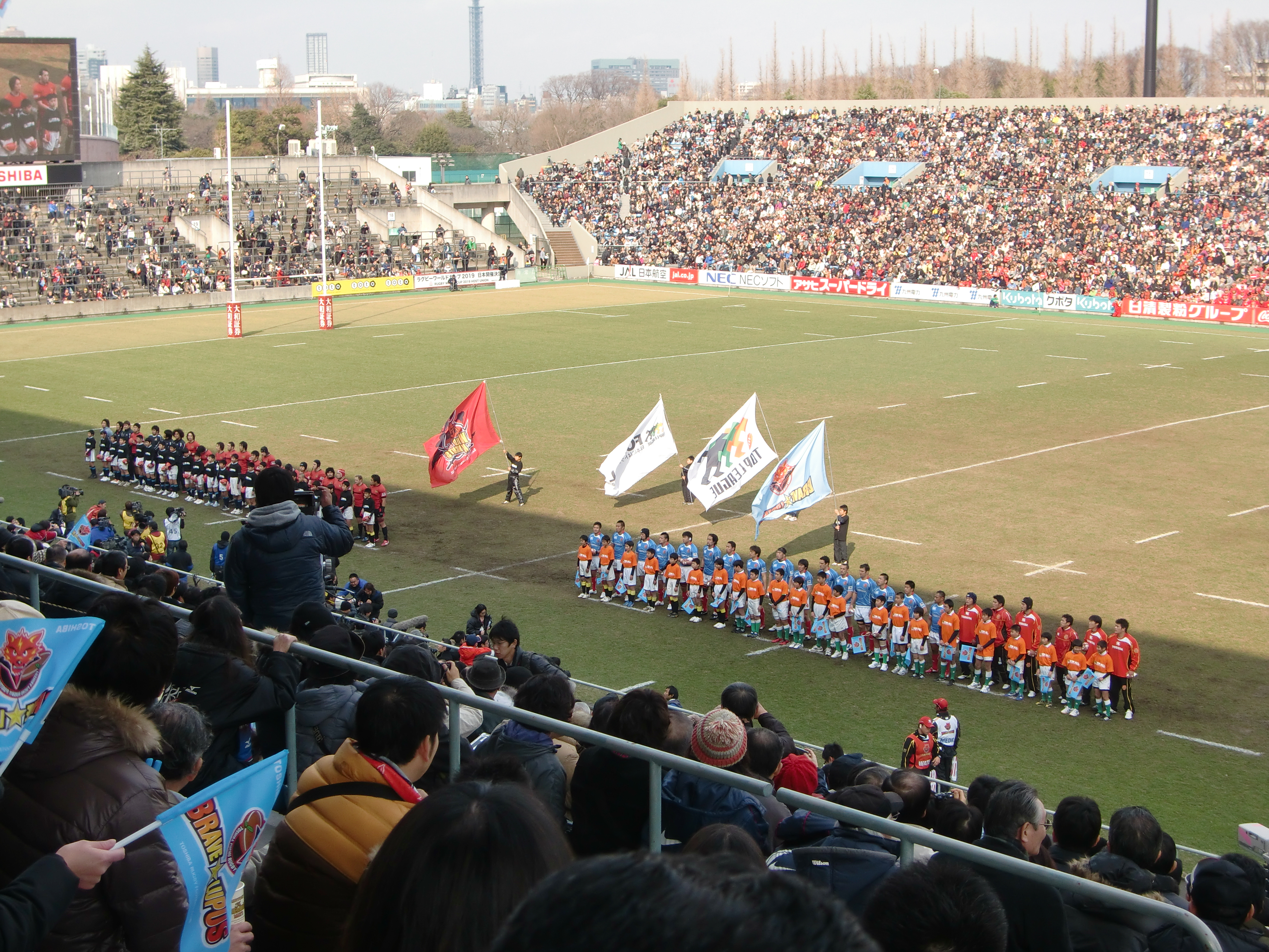 Japan rugby topleague Final card in 2009-2010. Toshiba vs Sanyo.